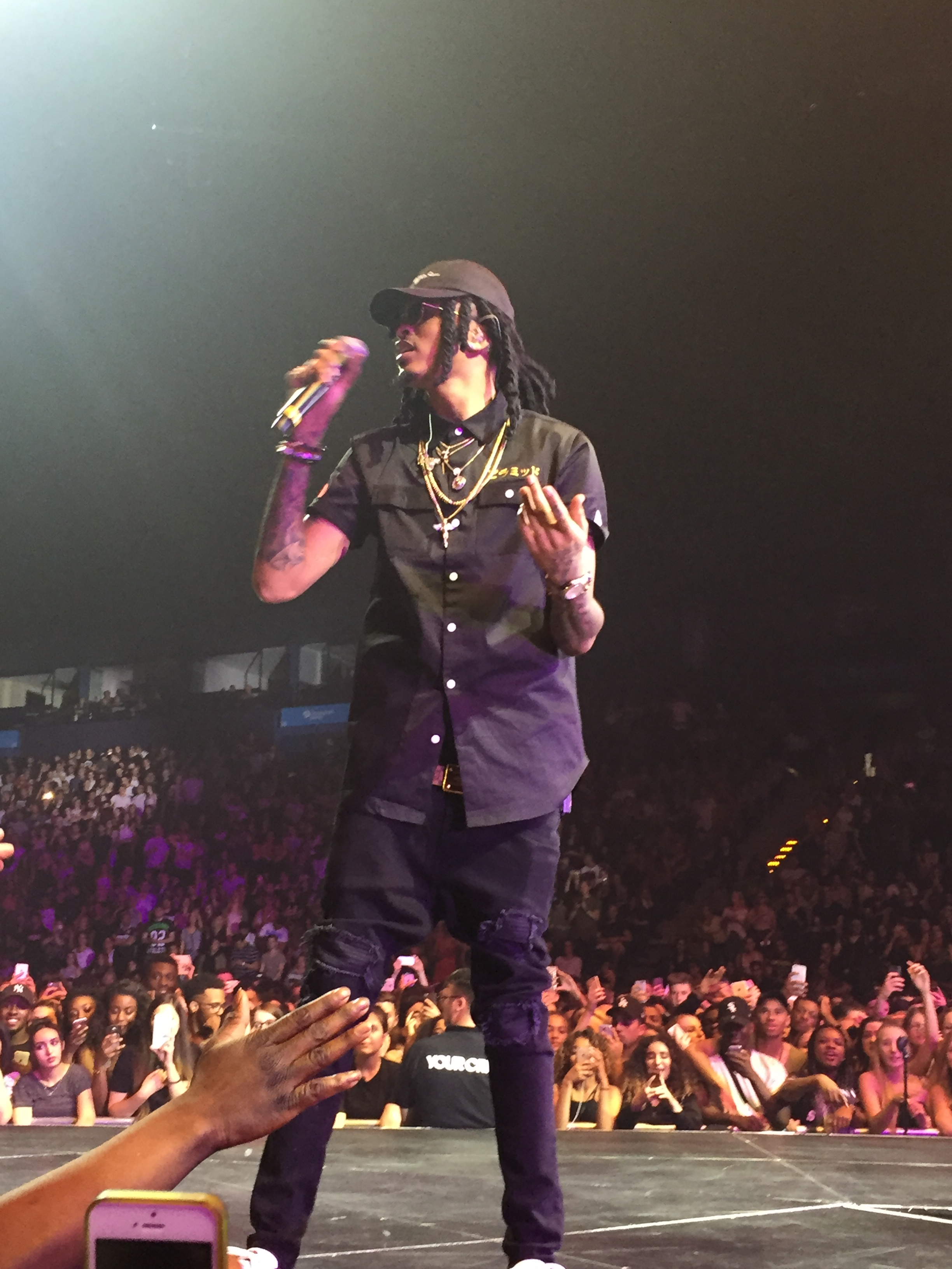 August Alsina as pre-act at One Hell Of A Night Tour (2016) by Chris Brown, Hamburg/Barclaycard Arena